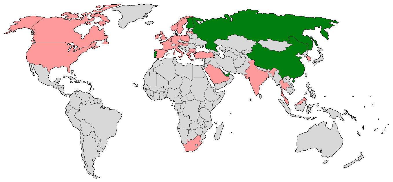 World map displaying the countries raced in by the Formula 1 Powerboat World Championship in its 2008 season in green. Former host nations shown in pink.